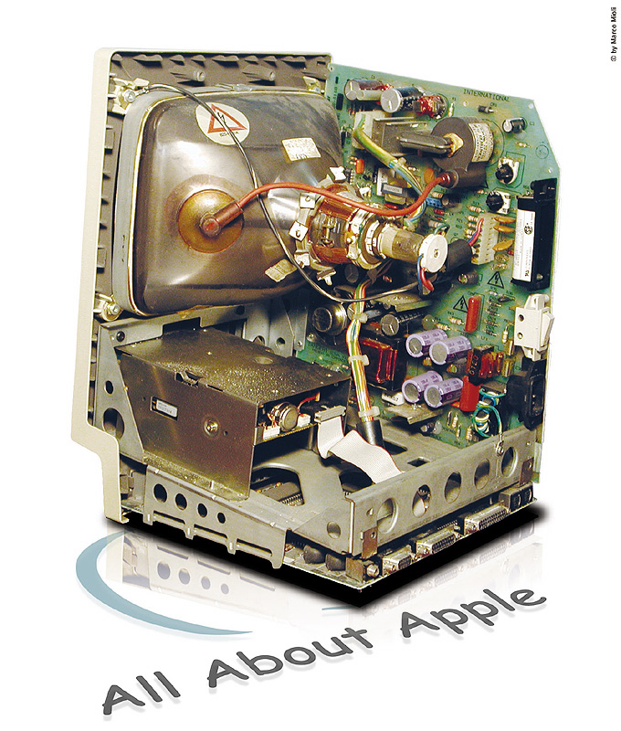 Macintosh 128K cutaway diagram.